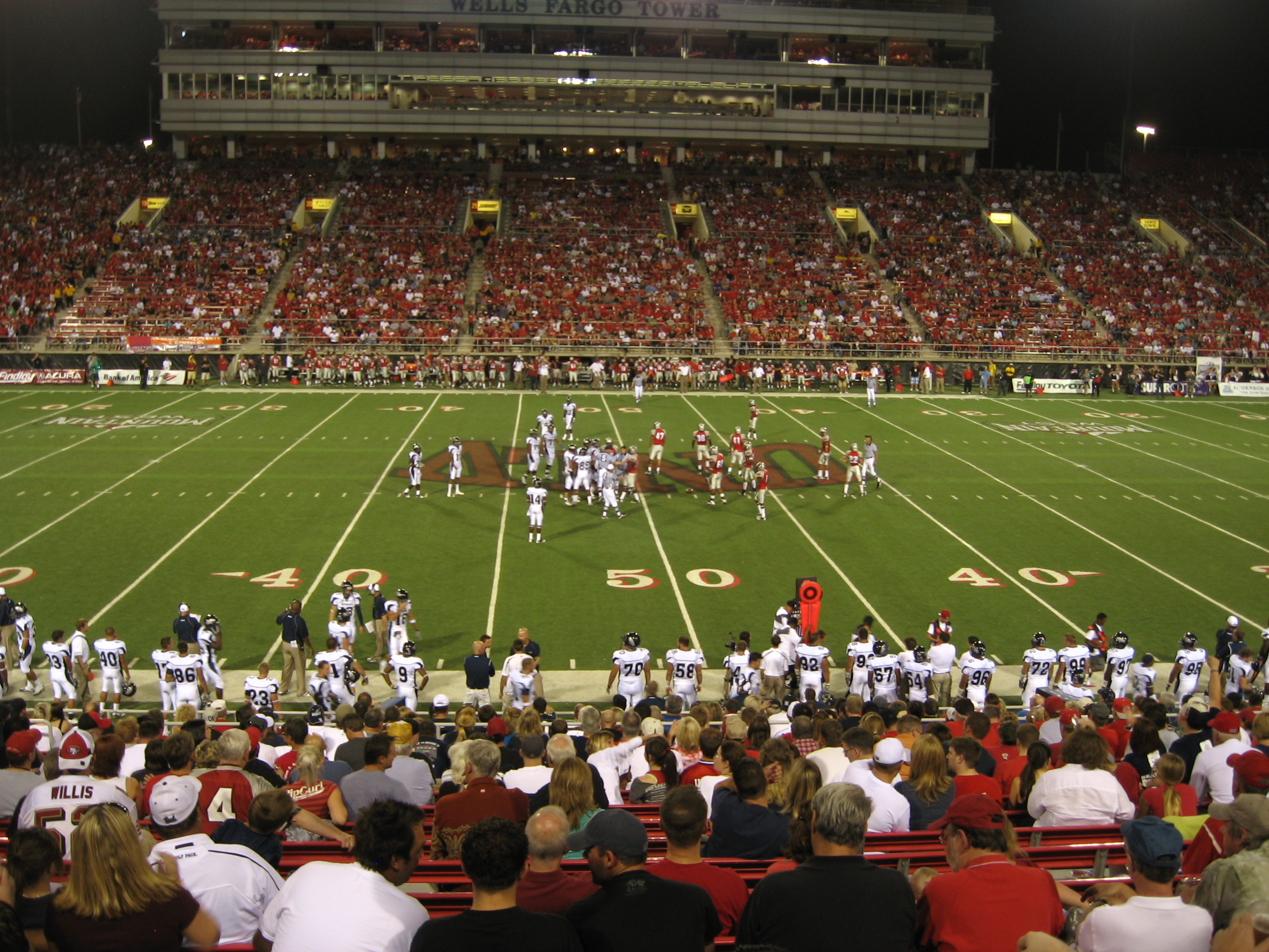 University of Nevada 44, UNLV 26, Sam Boyd Stadium, Las Vegas, Nevada (12)